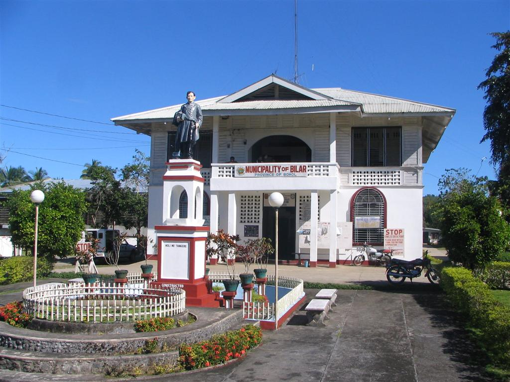 self taken